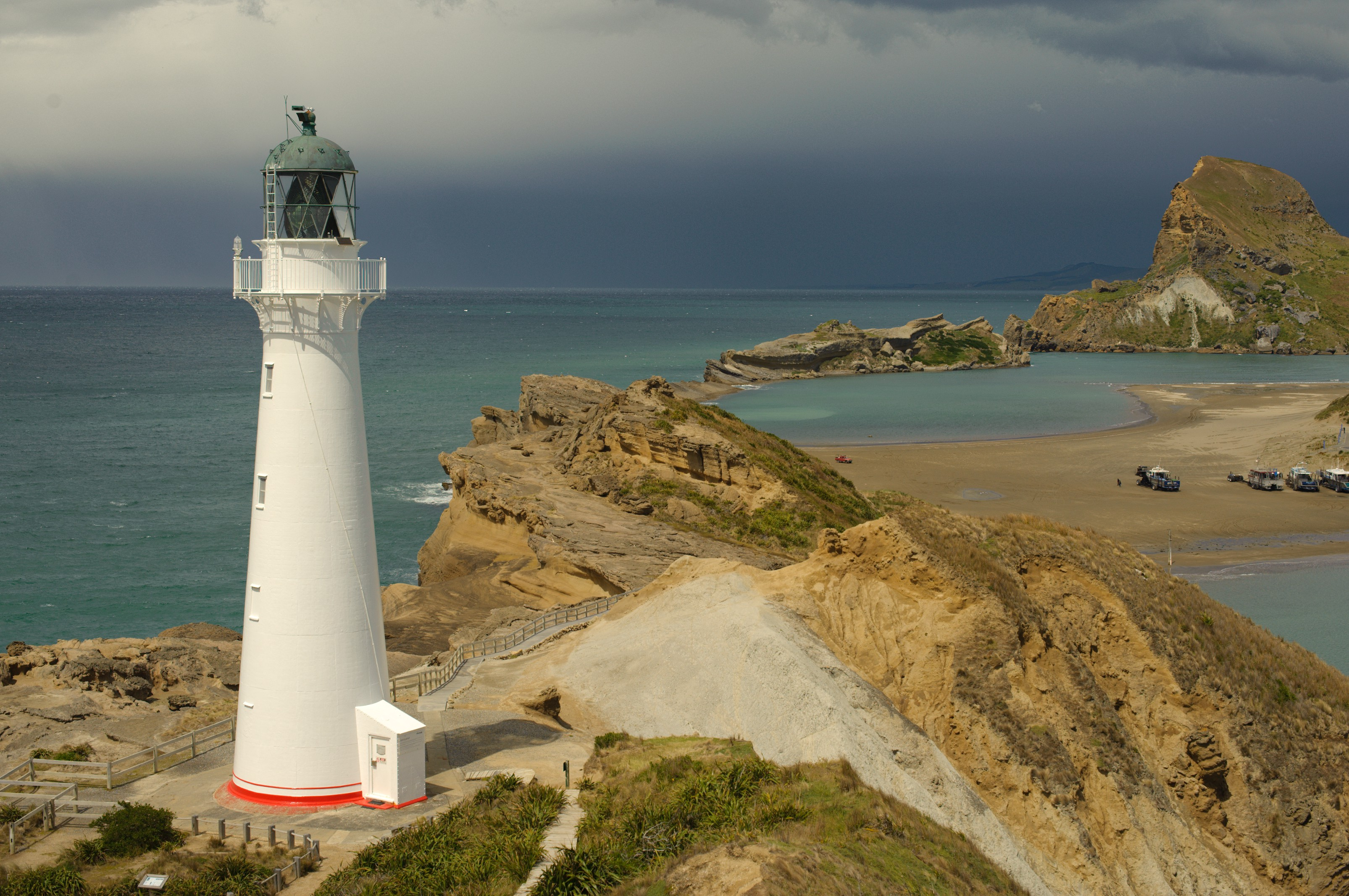 Castlepoint Lighthouse from the north, with the lagoon and Castle Hill visible to the south.